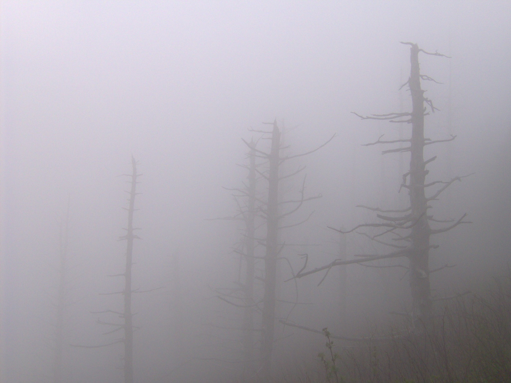 Dead Fraser Firs on the upper slopes of Old Black in the Great Smoky Mountains of Tennessee and North Carolina. This view is from the Appalachian Trail, appx. halfway between the Snake Den Ridge Trail junction and the Balsam Mountain Trail junction. Most of the Fraser Firs of Southern Appalachia were killed by the balsam wooly adelgid infestation in the 1960s and 1970s.